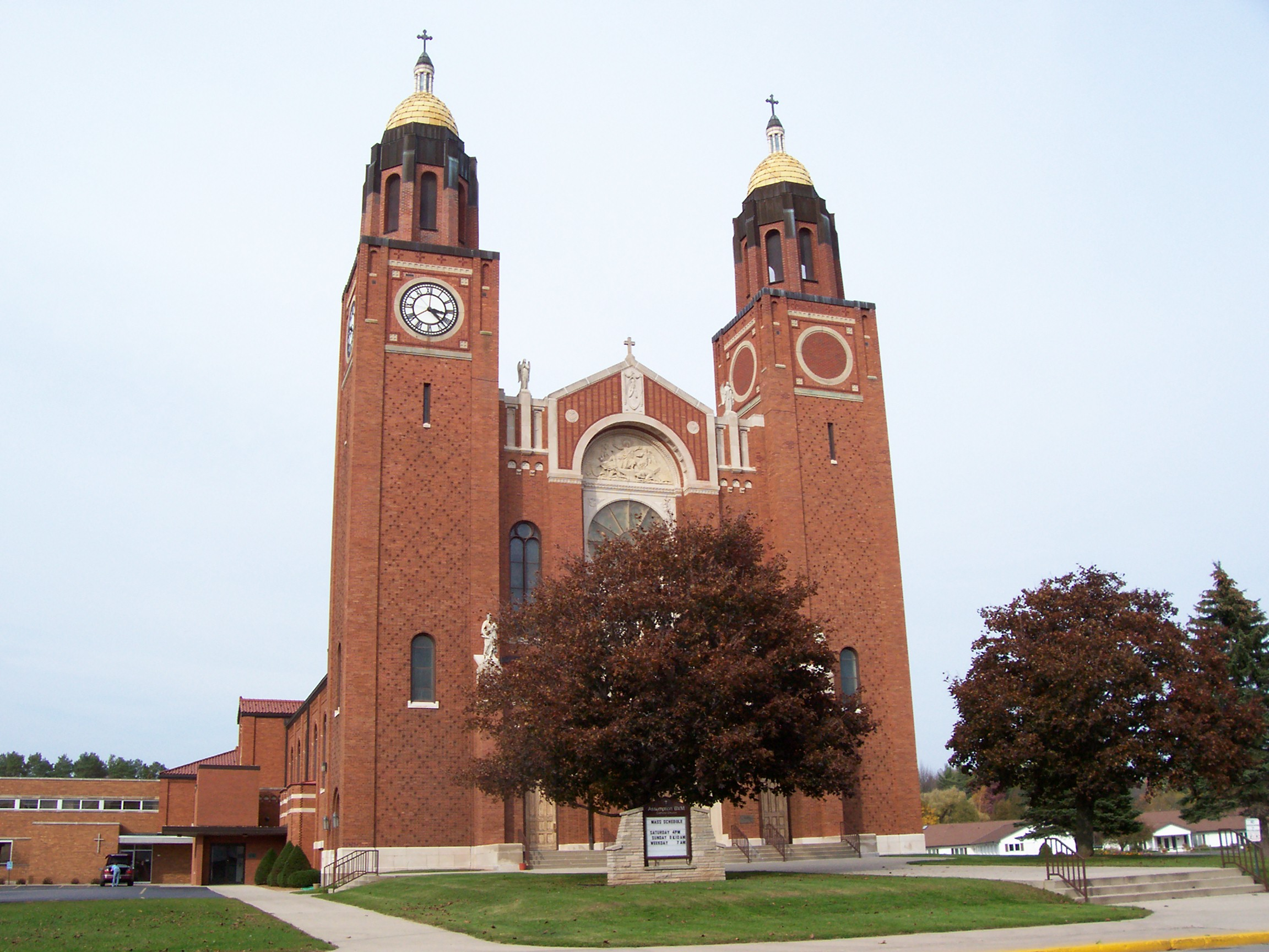 The Assumption of the Blessed Virgin Mary Catholic church in Pulaski, Wisconsin, United States. This church is at the intersection in this image: Image:Wis160EastTerminus.jpg (which is the next intersection just feet left of this image). This image was taken October 8, 2006 by User:Royalbroil (image date is wrong)